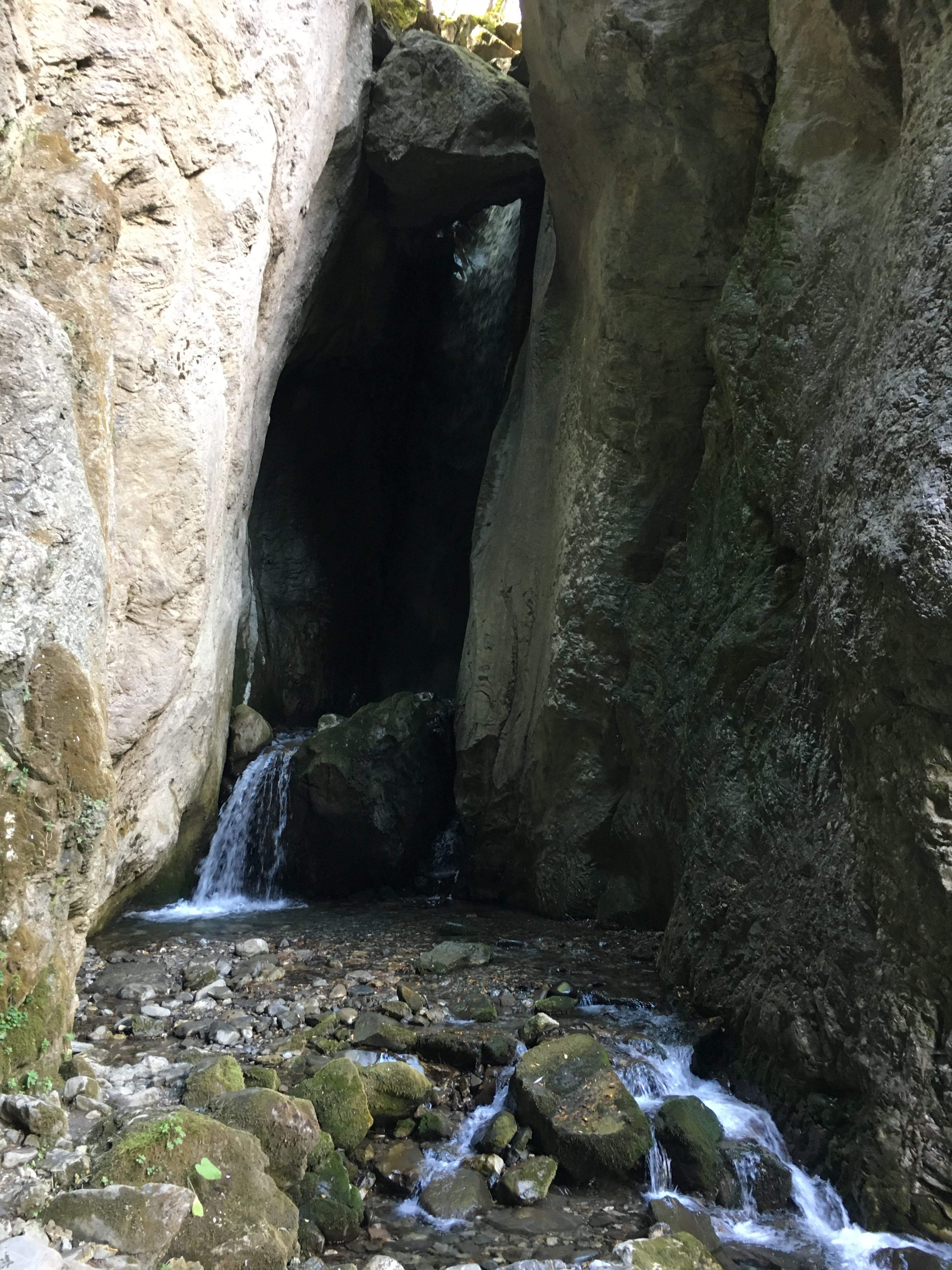 Duf Waterfall